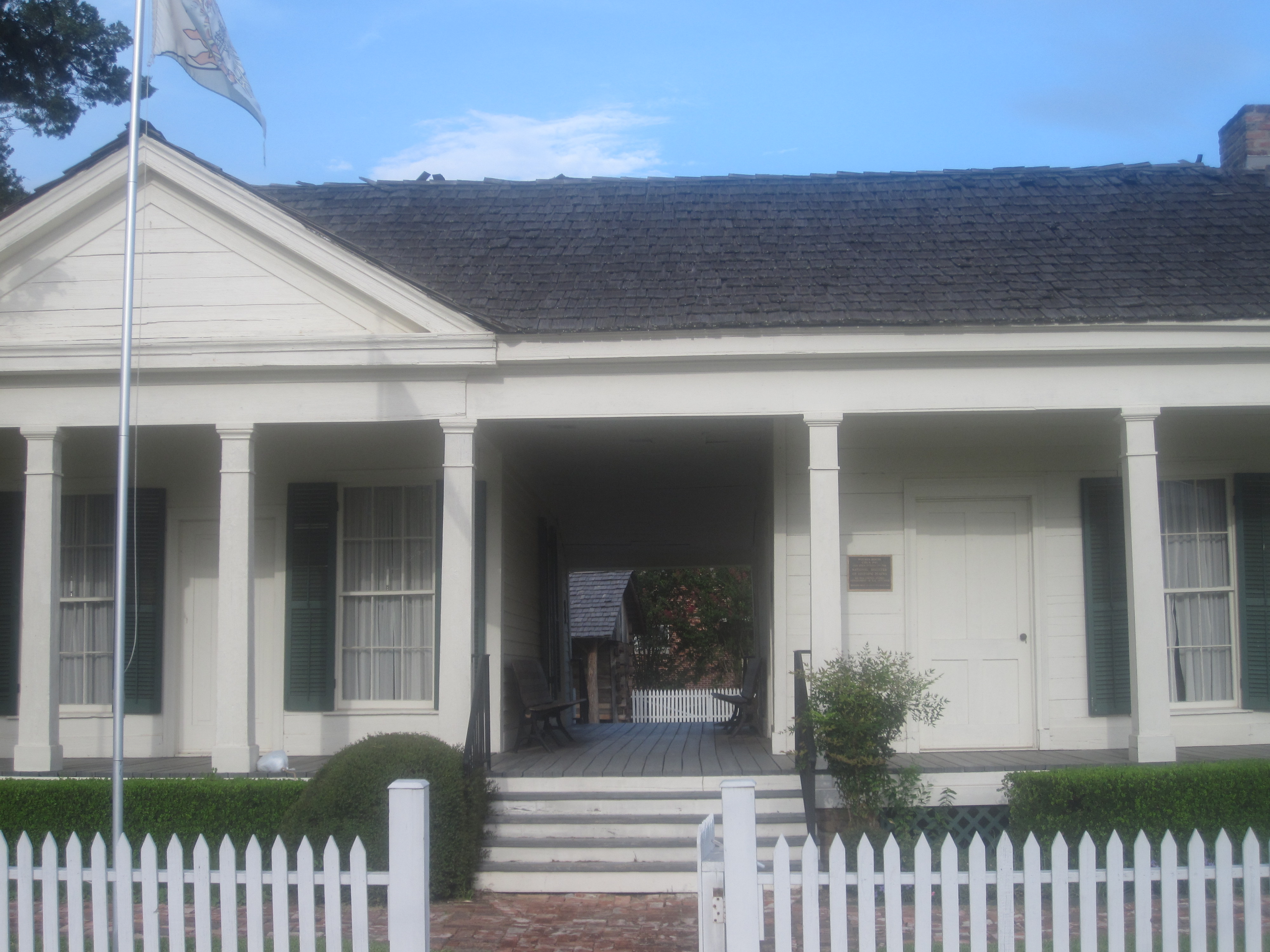 Historic home in Benton of former LA House Speaker Hughes